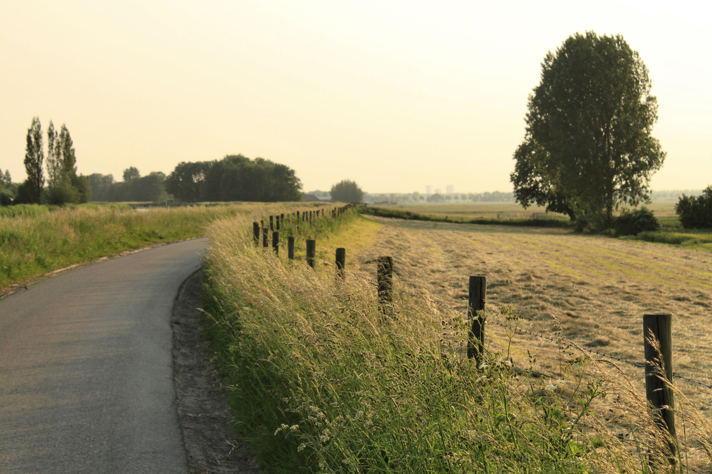 Westergouwe, Gouda